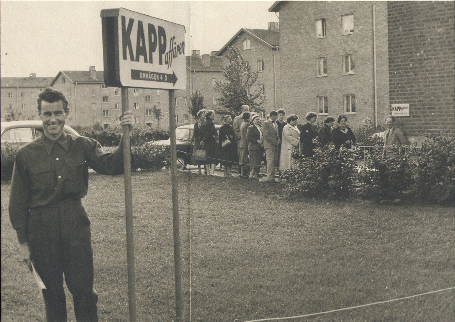 KappAhl's founder Per-Olof Ahls outside the first store in 1953